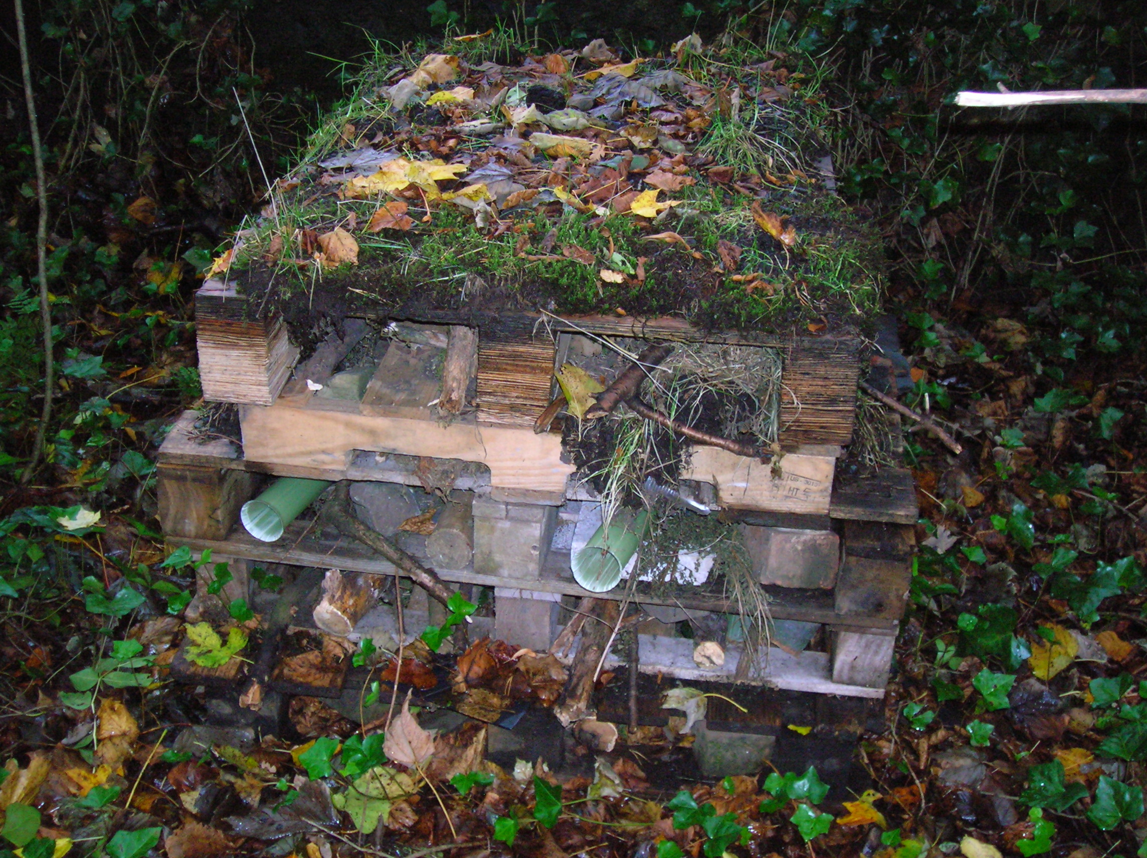 A hibernaculum or 'Bug Hotel' at Spier's Old School Grounds, Beith, North Ayrshire, Scotland.